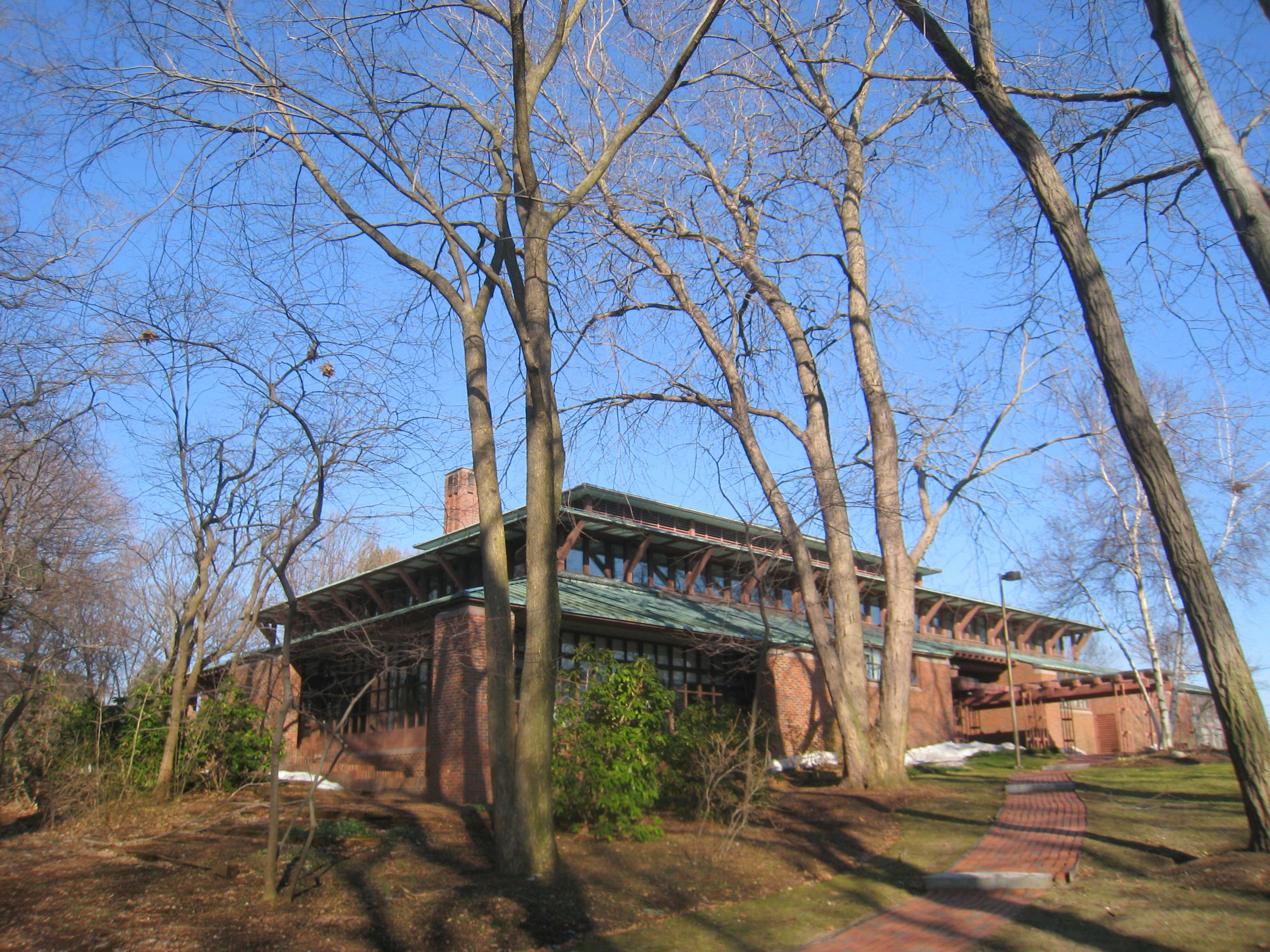 American Academy of Arts and Sciences building, Cambridge, Massachusetts, USA. Exterior view.